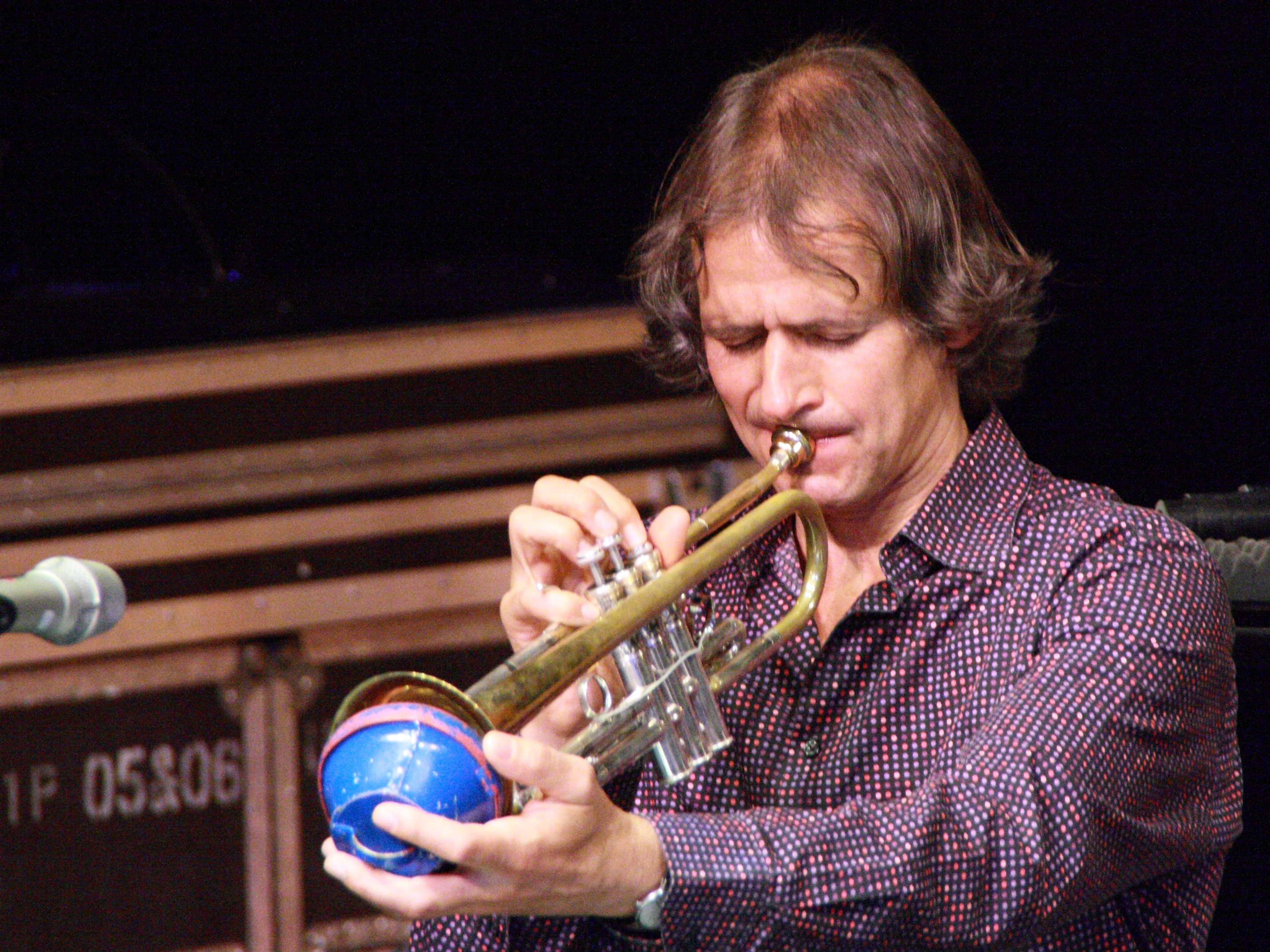 Trumpeter Markus Stockhausen at the TFF Rudolstadt